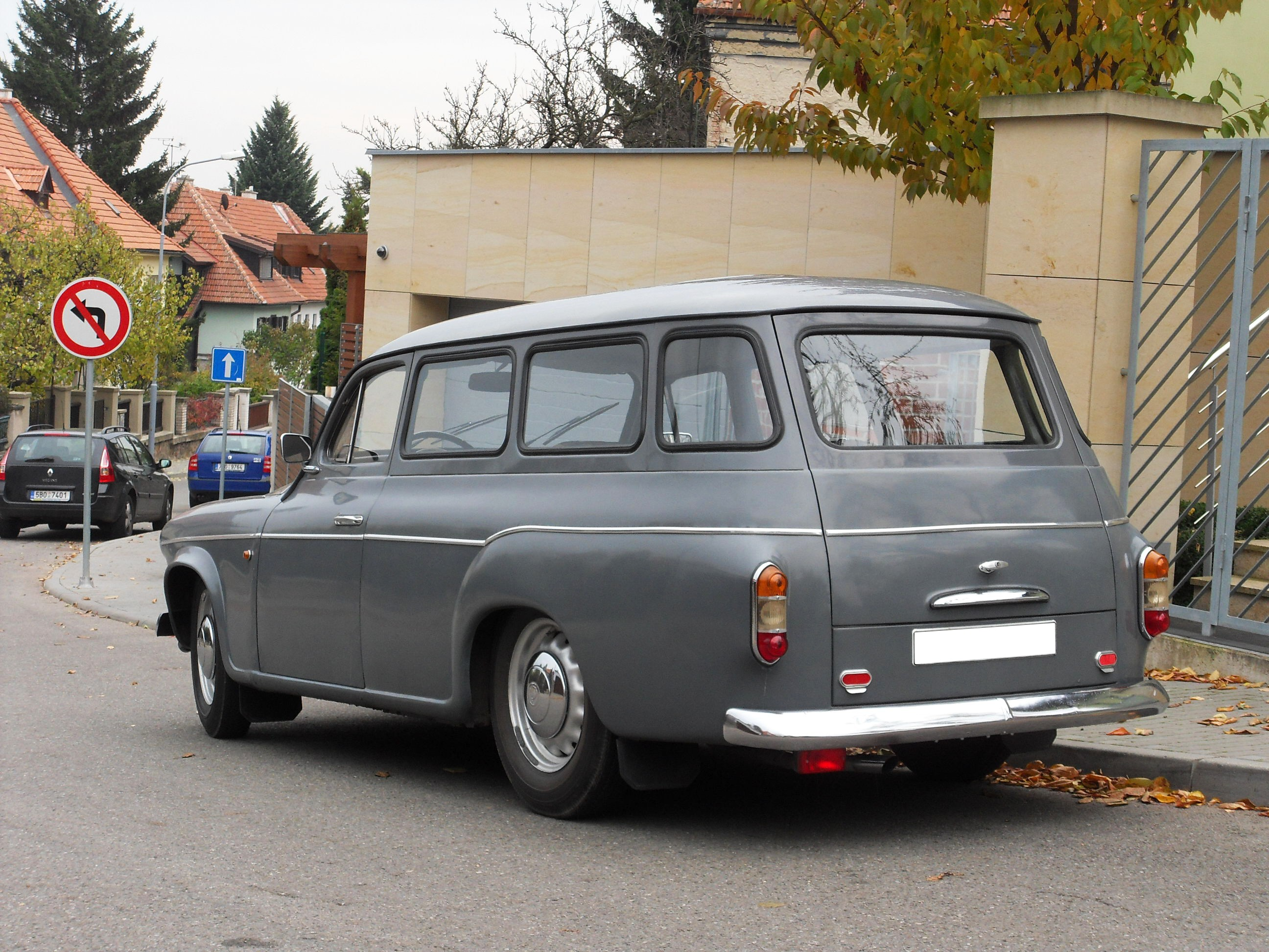 Škoda 1202 STW de Luxe, Brno, Czech Republic